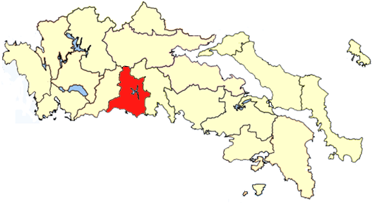 dorida province